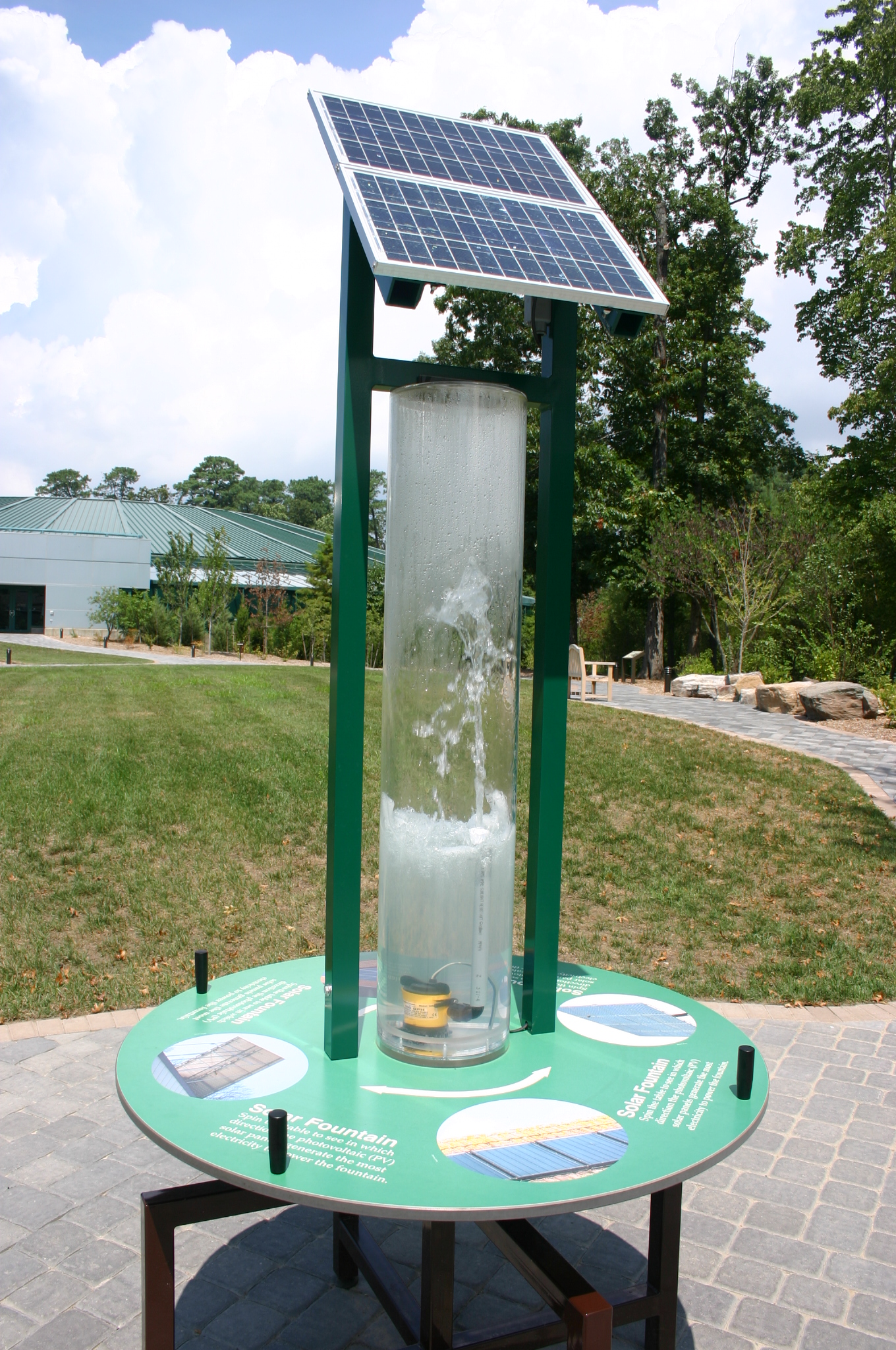 Virginia Living Museum Conservation Garden Visit for daily science news links.